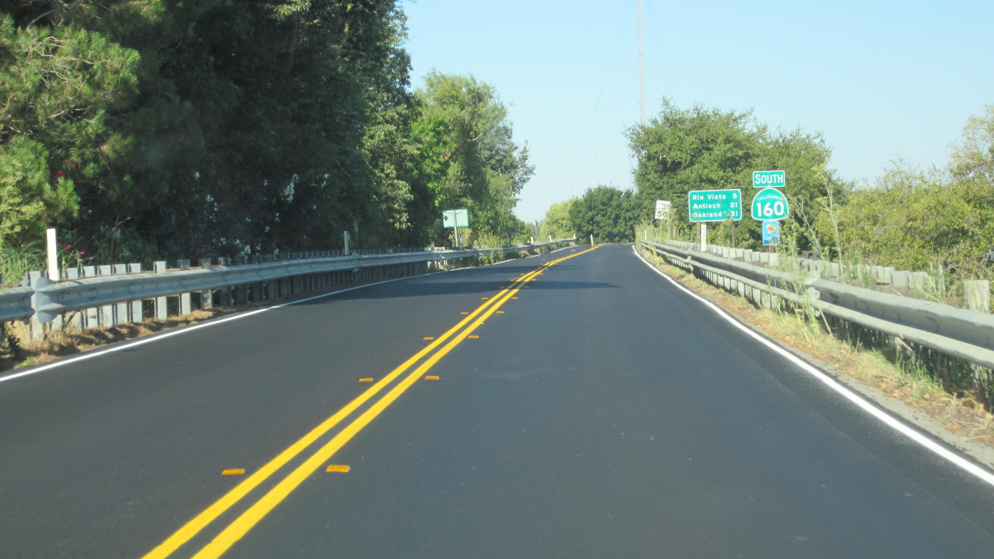 Heading south on California State Route 160.